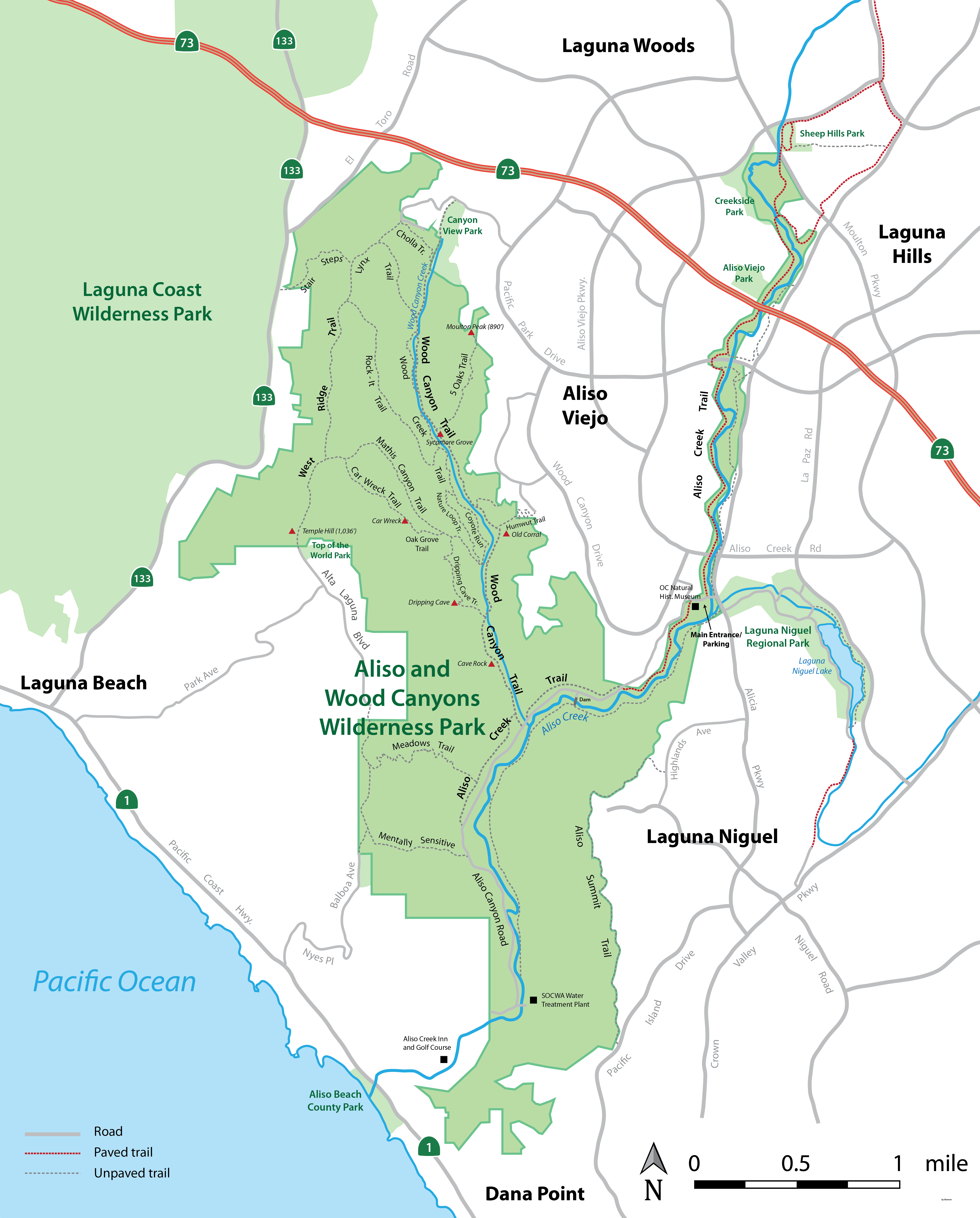 A trail map of Aliso and Wood Canyons Wilderness Park in Orange County, California. I created this map in Adobe Illustrator based on USGS and Google Maps data.